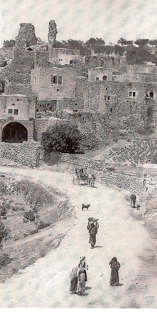 Al-'Aizeriyeh (Bethany), before 1913.